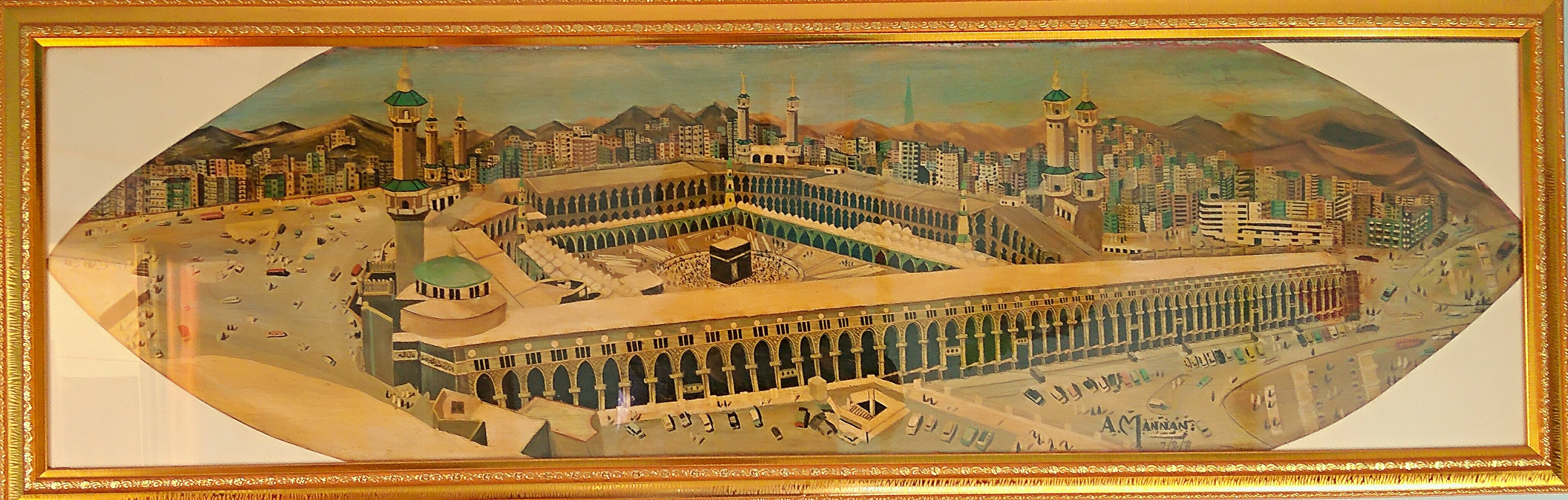 The Painting of ‘Masjid Al-Haram in 20th Century’ (Great Mosque of Mecca in 20th Century) is an oil painting on plywood sheet from 1971 by the Indian artist Hafez Abdul Mannan.